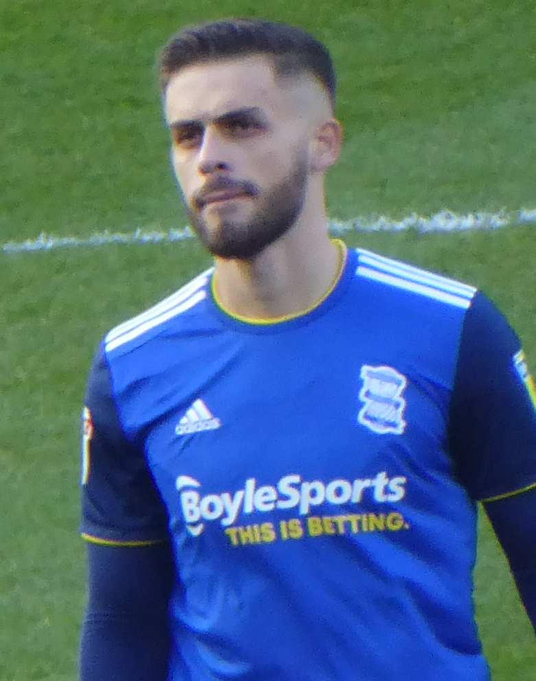 Albania under-21 international footballer Geraldo Bajrami making his English Football League debut for Birmingham City on 14 December 2019